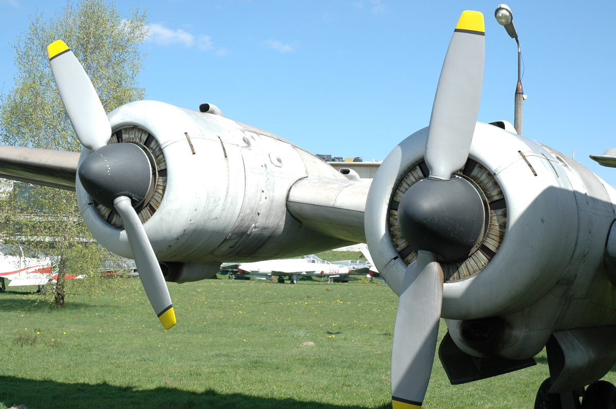 WSK MD-12F (Polish Aviation Museum, Cracow)